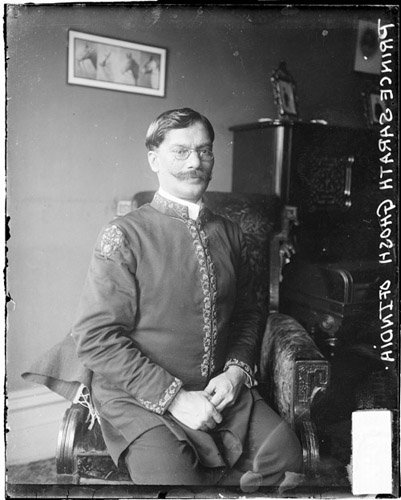 Portrait of Sarath Ghosh, a prince from India, sitting in a chair in a room in Chicago, Illinois. The end of an upright piano is visible in the background.